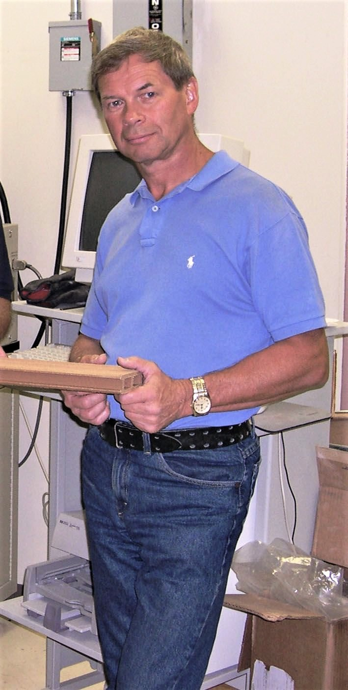 Prof_Kljosov